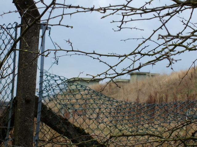 UKWMO Wartime Headquarters. The United Kingdom Warning and Monitoring Organization (UKWMO) was the successor to the Royal Observer Corps in the warning of the public and also the Government and Military, of a nuclear attack against the UK. This bunker in Goosenargh is where the infamous "Attack Warning Red" would have been broadcast from, after the Ballistic Missile Early Warning System (BMEWS) on Fylingdales Moor picked up the inbound missiles. Another relic of man's most dangerous time on earth and Cold War relic left to rot away.